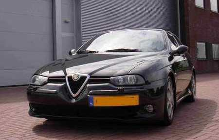 Alfa Romeo 156 GTA SW